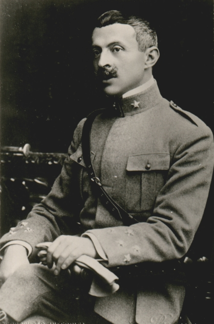 Photograph of Sidónio Pais